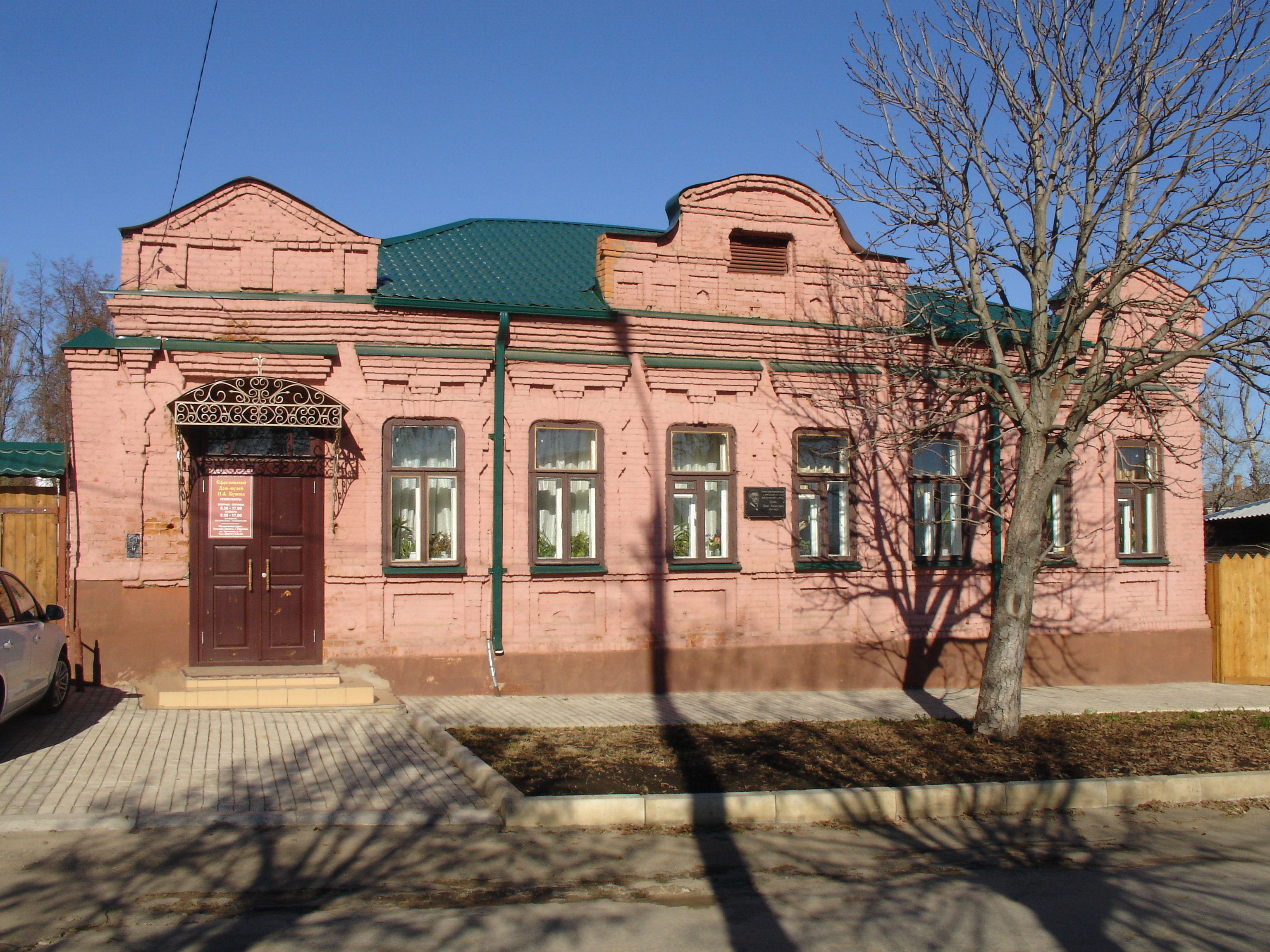 House-Museum of Ivan Bunin in Yefremov, Tula oblast, Russia. Facade. (2013)